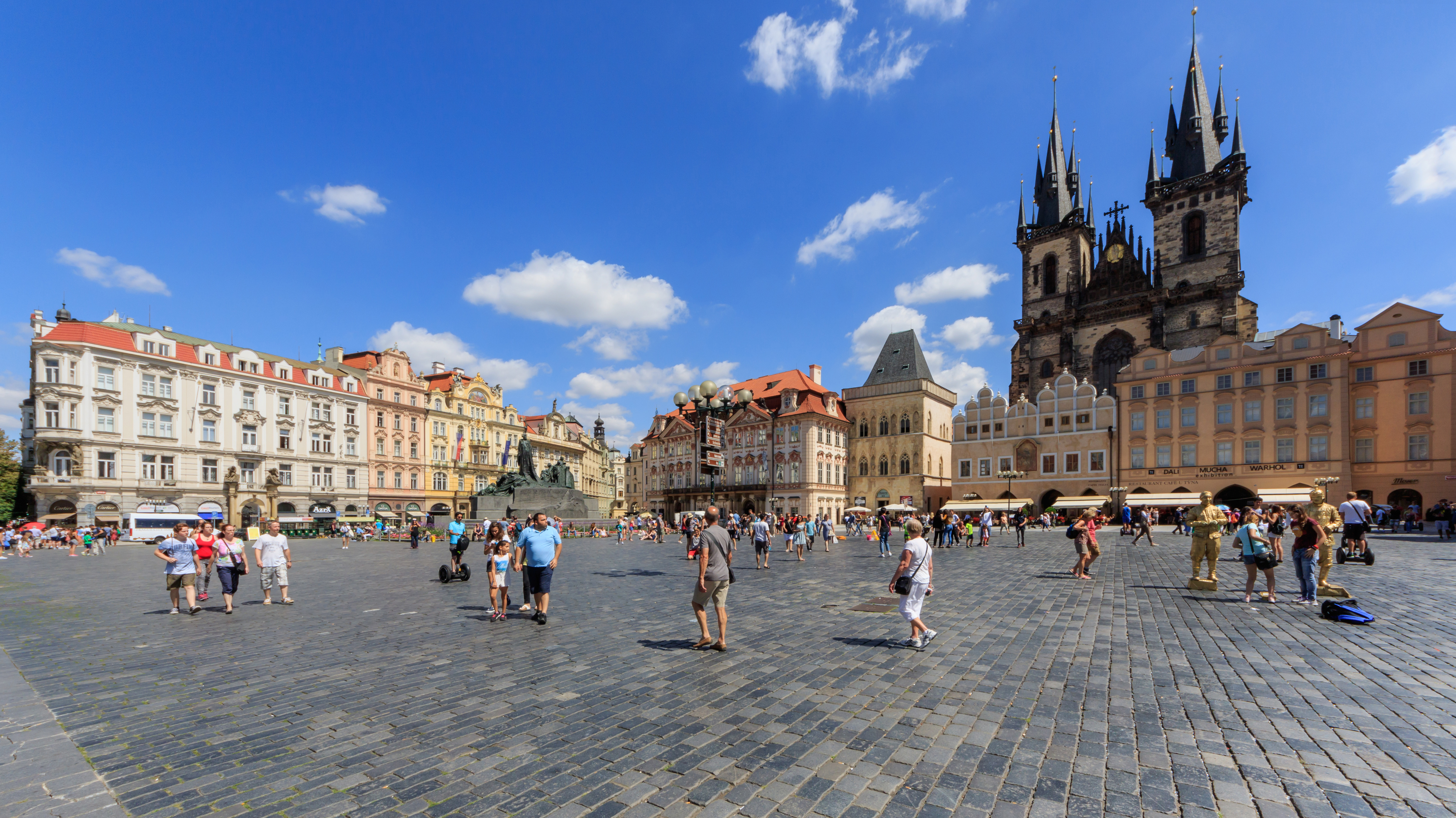 Old Town Square in Prague (Czech Republic)